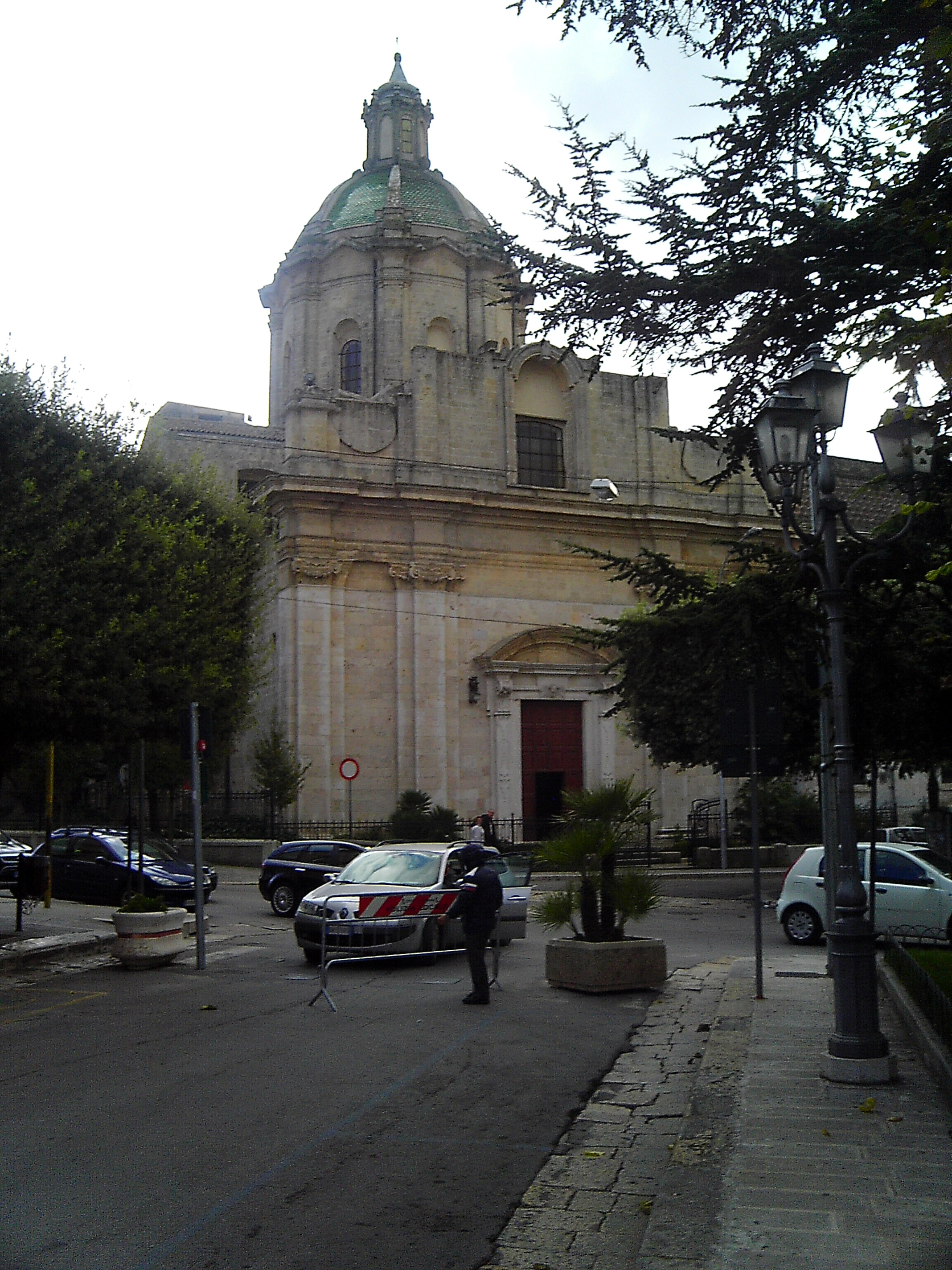 chiesa di san domenico